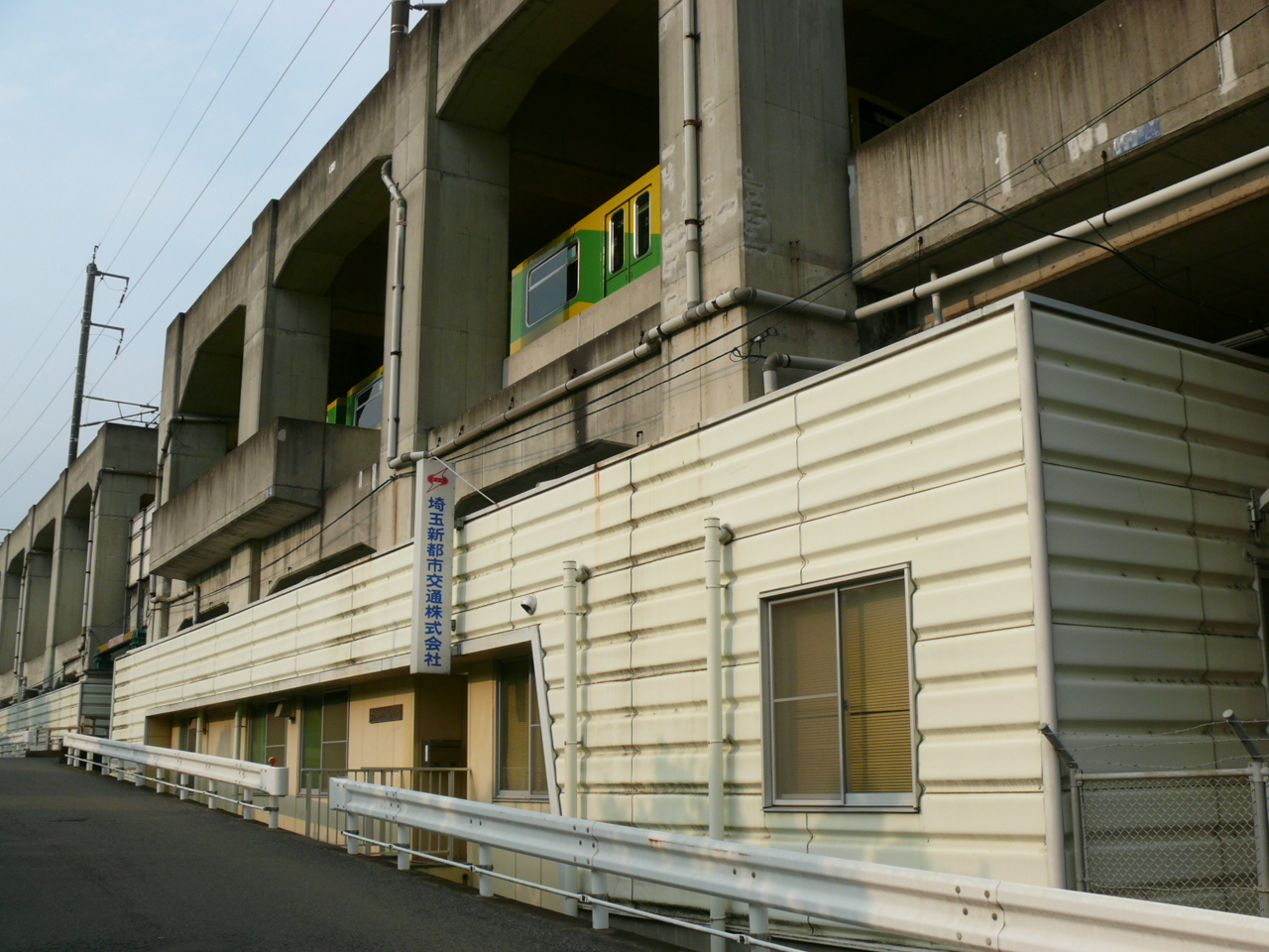 Saitama New Urban Transit Headquarters（Ina town, Saitama,Japan）.